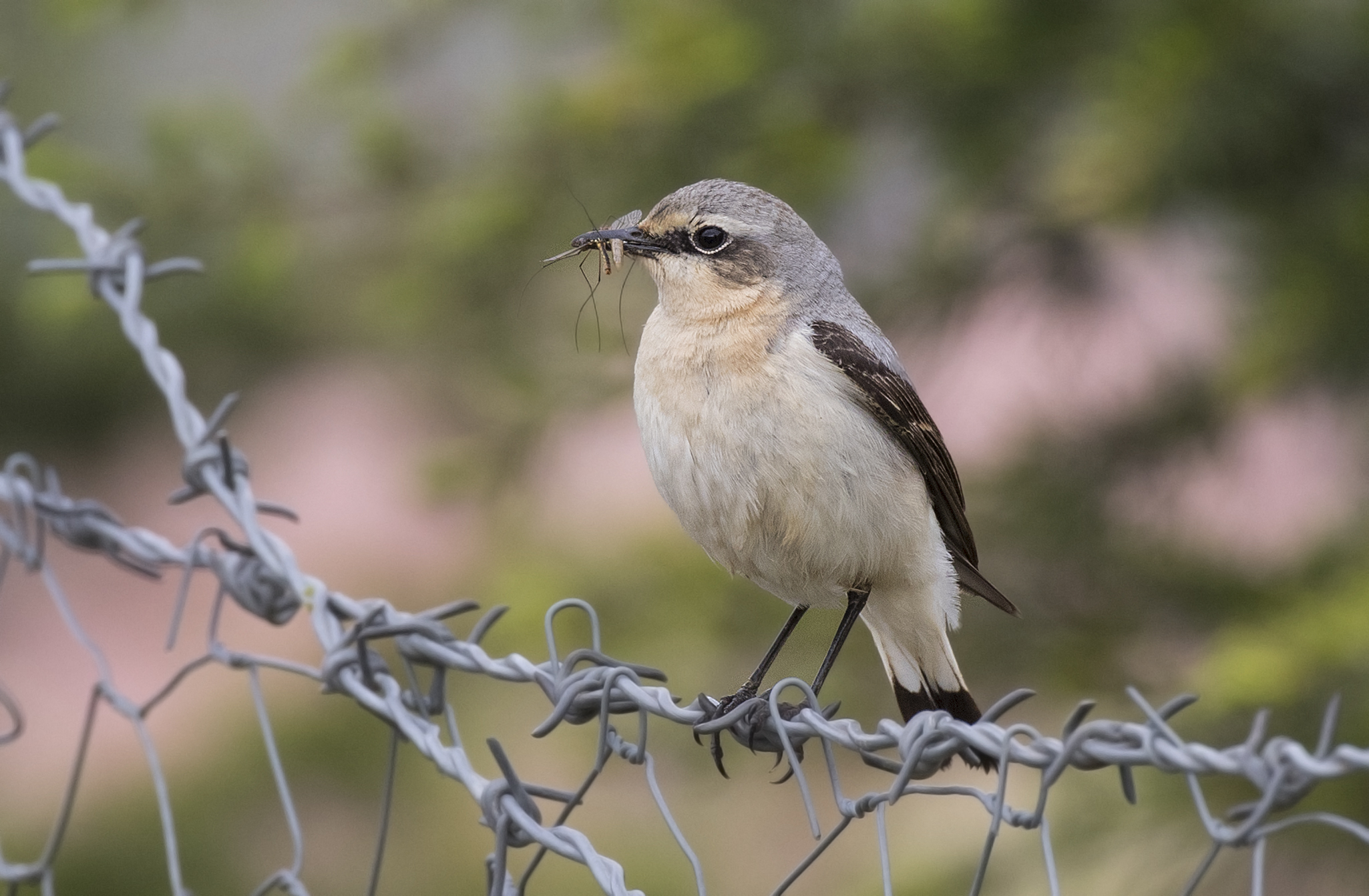 Northern Wheatear (Oenanthe oenanthe). Güzelim - Tufanbeyli, Adana - Turkey.